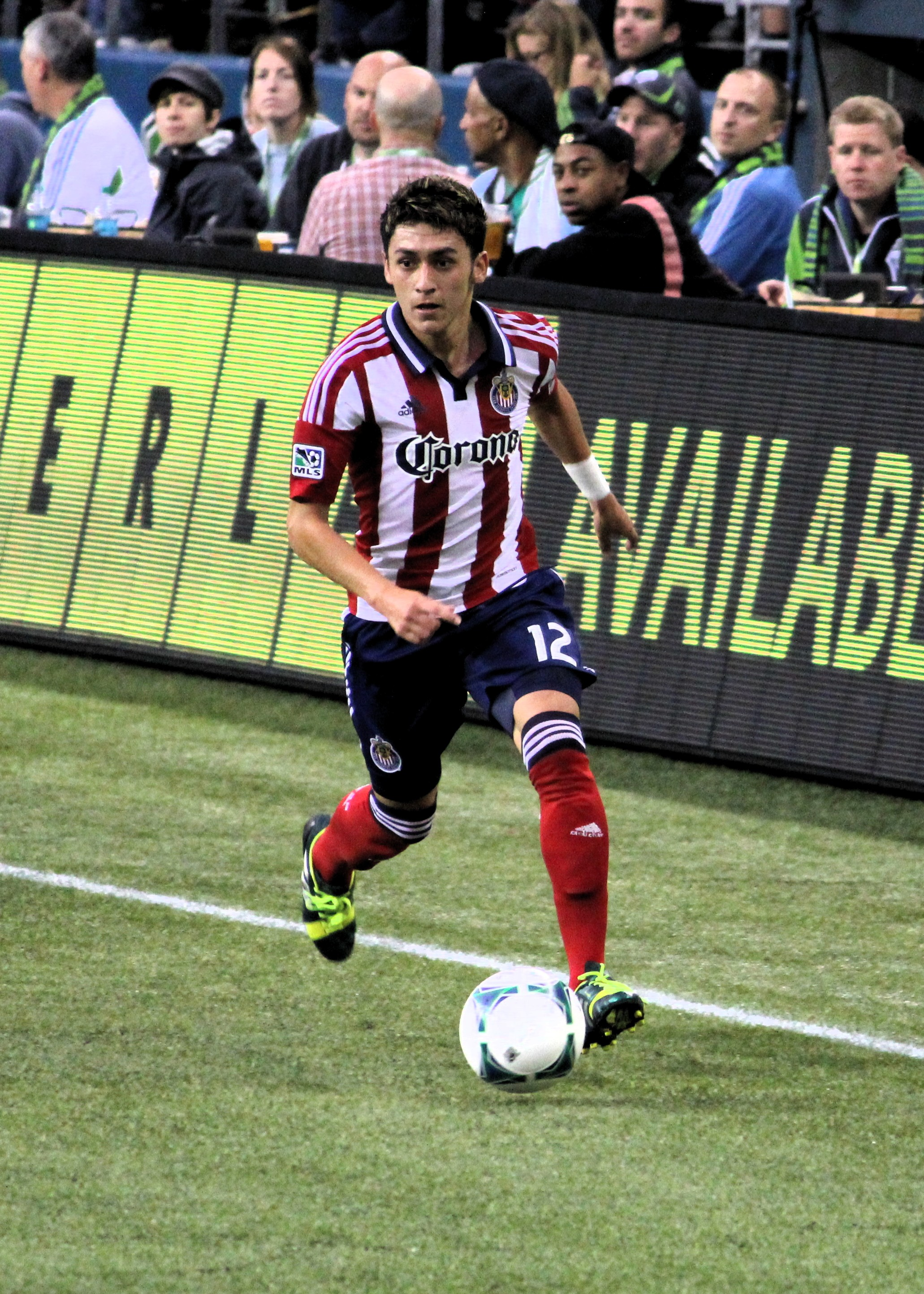 Marco Delgado of Chivas USA in a games against the Seattle Sounders at Centurylink Field on September 4, 2013